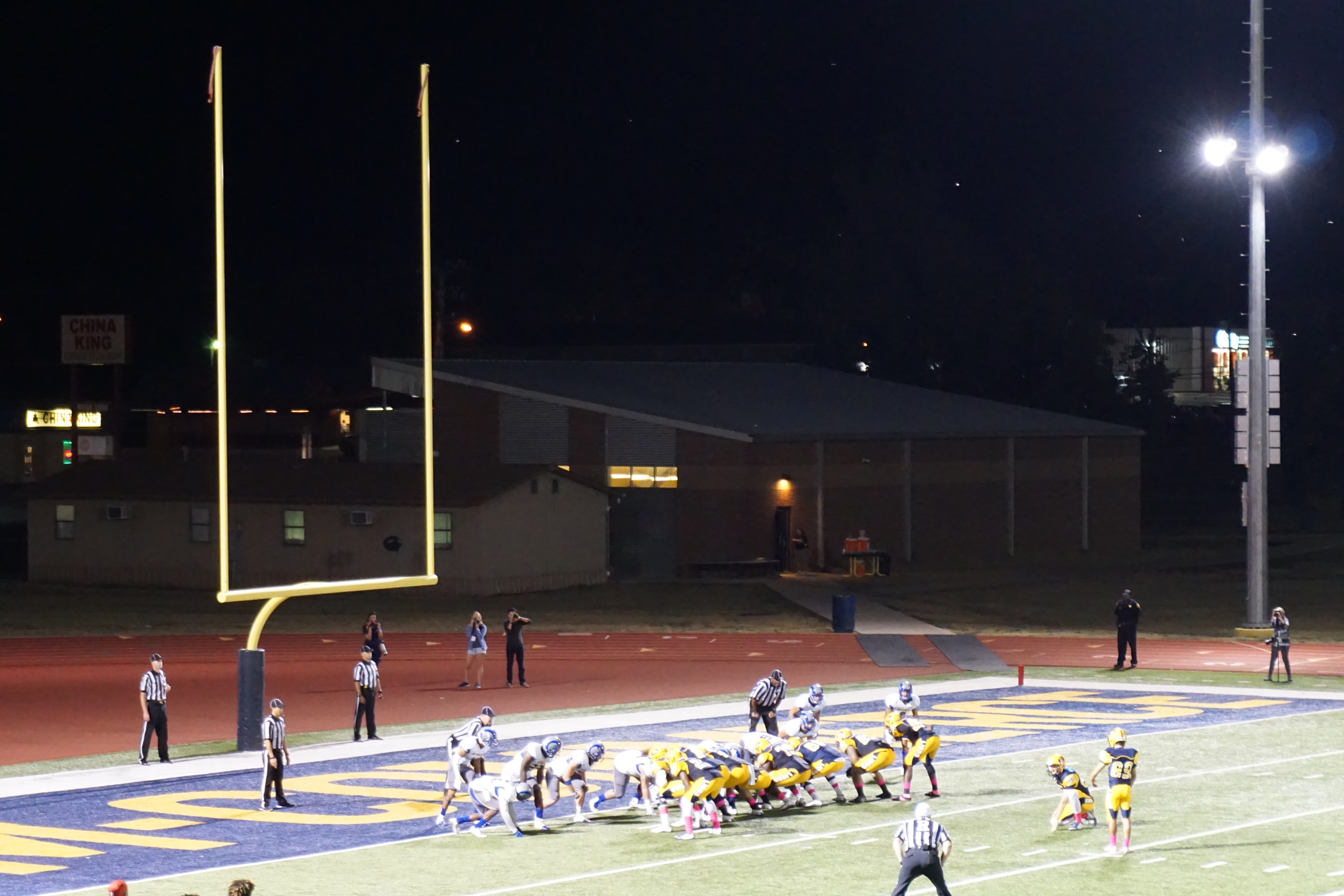 A&M–Commerce kicking a field goal during the Angelo State Rams vs. Texas A&M–Commerce Lions football game at Memorial Stadium in Commerce, Texas (United States). A&M–Commerce won 38–35.